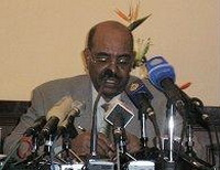 Sudanese President Omar Hassan al-Bashir, speaking in Beijing, China. 3 November 2006. Re used as "file photo" with original VOA credit here